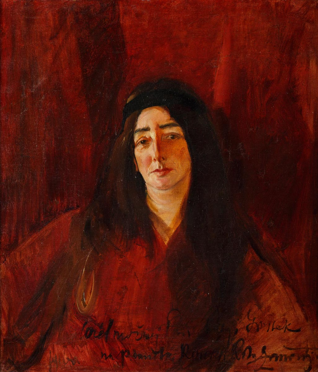 "Portrait of woman in red" (Maria Grossek-Korycka)